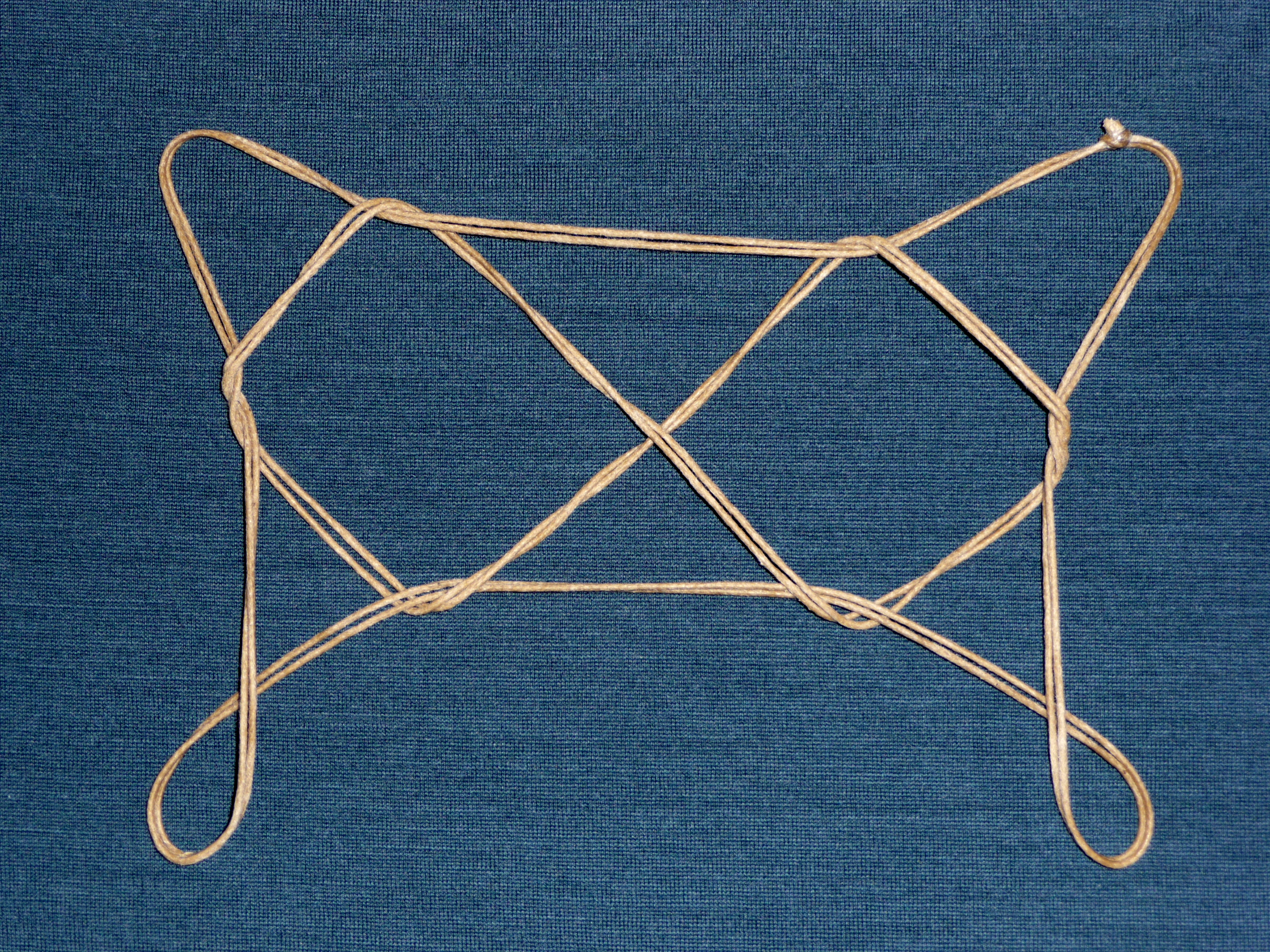 A String figure called "Osage Two Diamonds", in a doubled loop of cord, as found in Caroline Furness Jayne's String Figures and How to Make Them, page 30: .